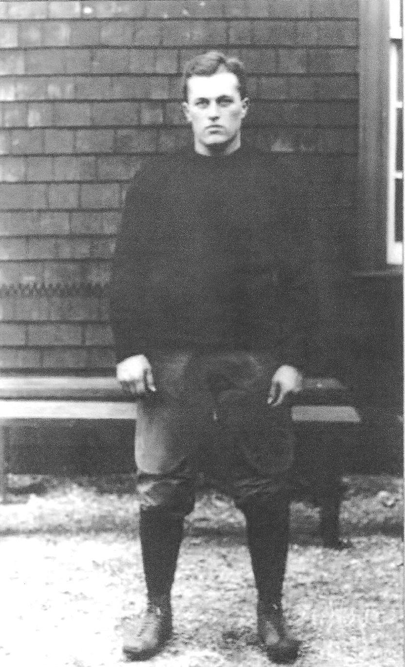 Image of Bob Storer